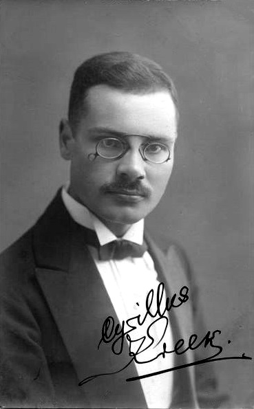 Autographed portrait of Estonian composer Cyrillus Kreek (1889–1962).